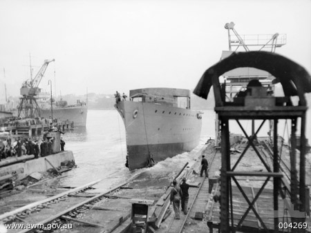 Australian War Memorial image 004269 HMAS Bathurst being launched at Cockatoo Dockyard, Sydney